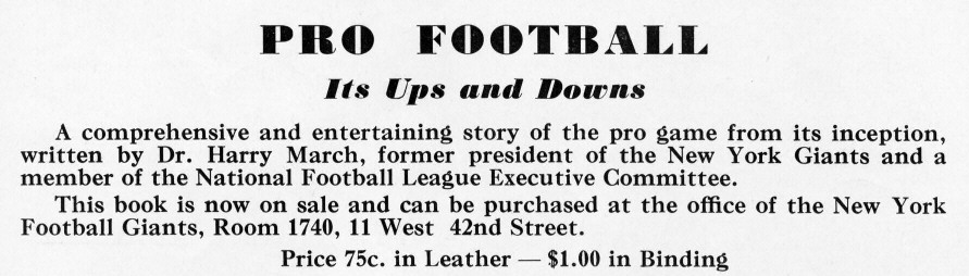 manipulated detail of a 1934 program page with advertisement owned by Michael Moran